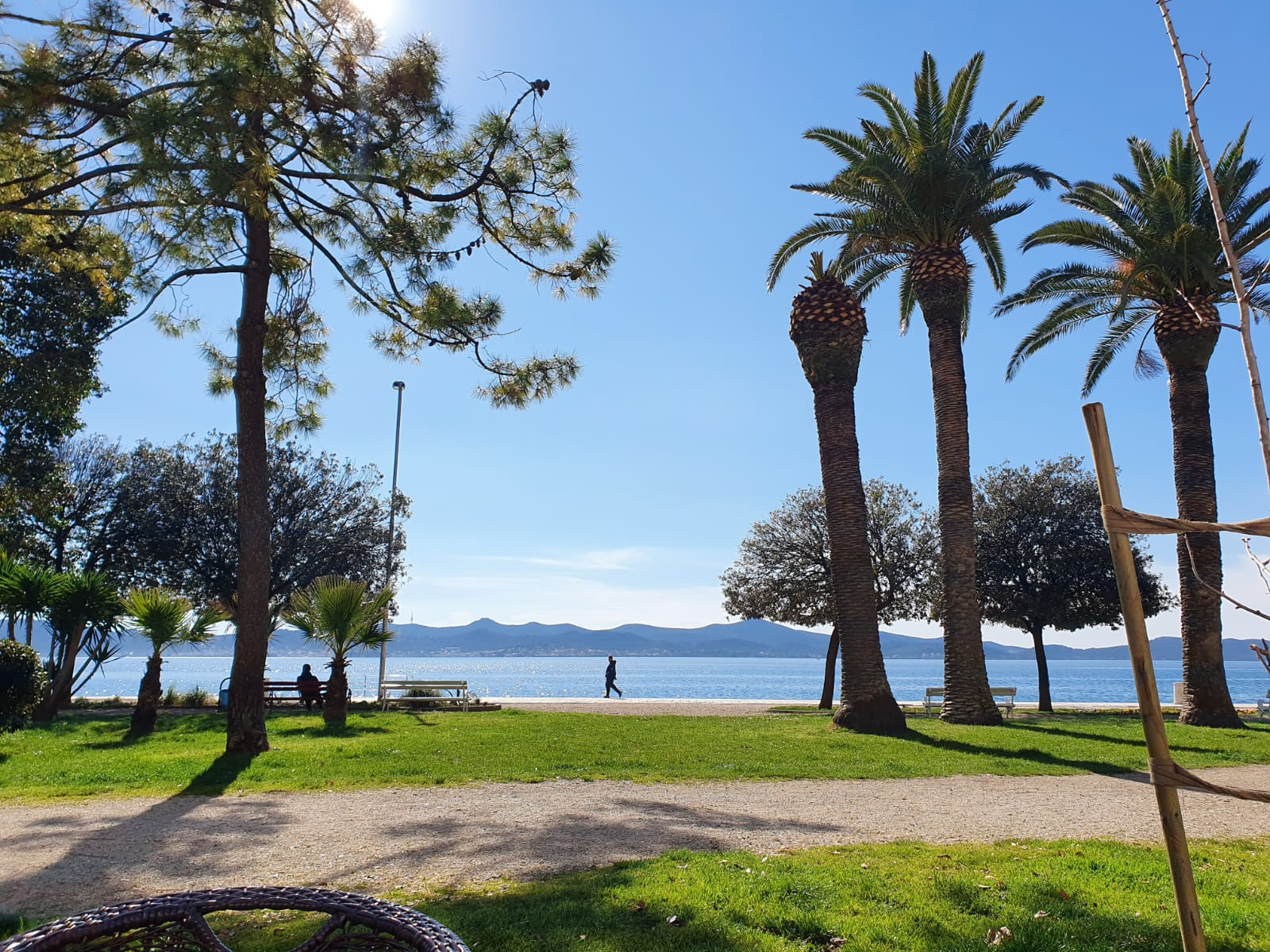 The view of the sea surrounded by palm trees in Zadar, Croatia.